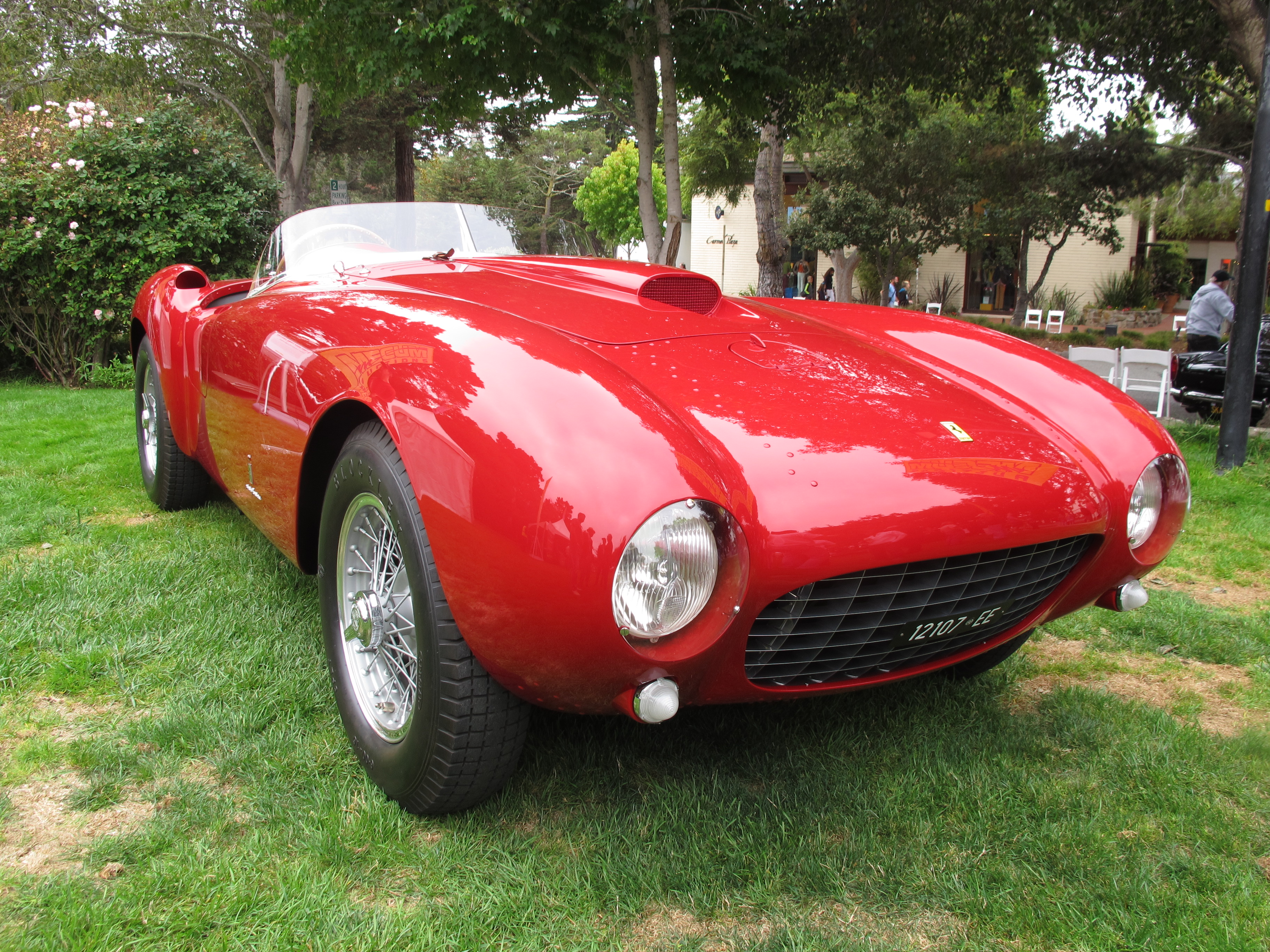 1954 Ferrari MM Spyder auctioned by Mecum (didn't sell) at Monterey 2014. According to Mecum - once driven by Dan Gurney. Chassis #0362AM.[1]